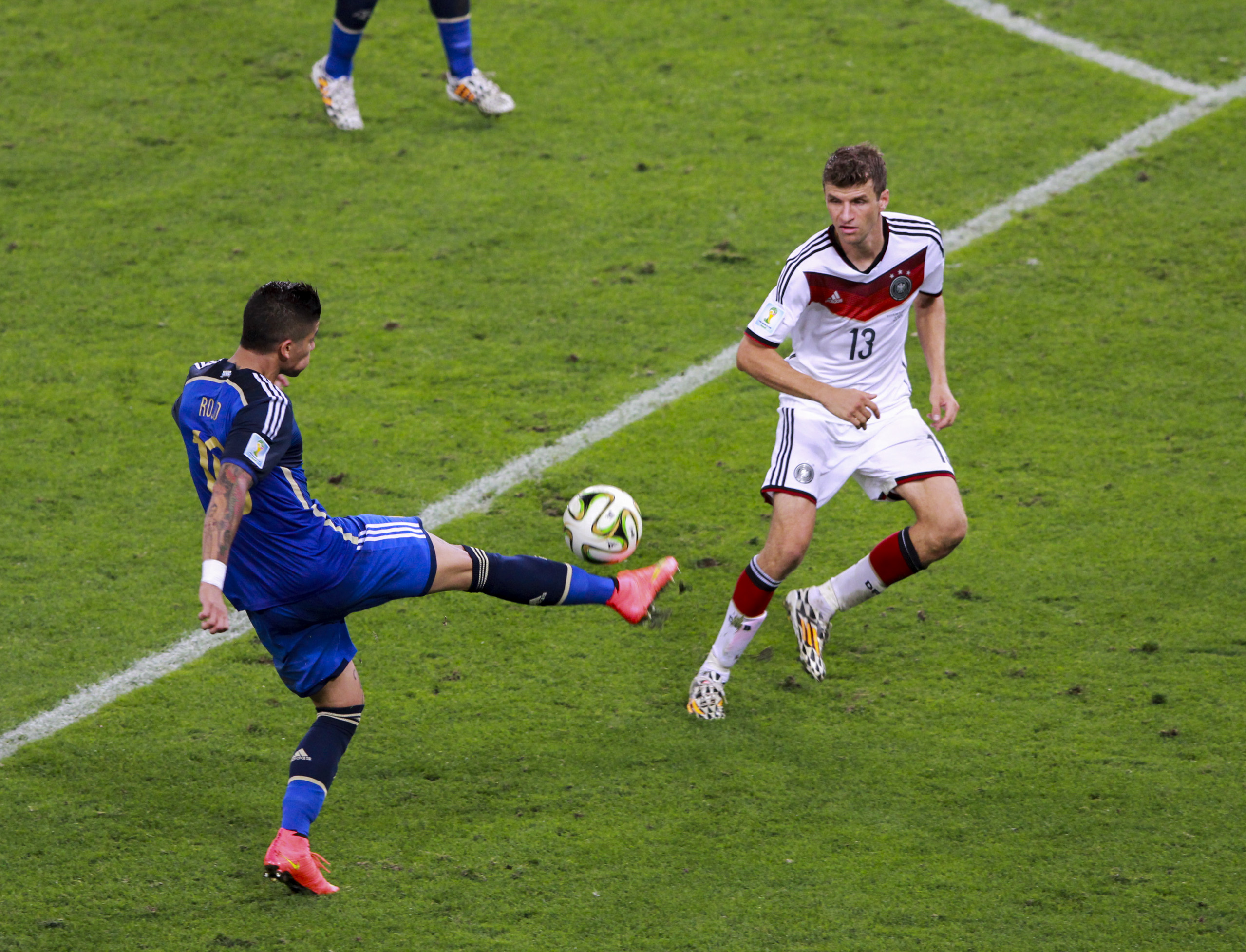 The final match of World Cup 2014 between Germany and Argentina 2014-07-13